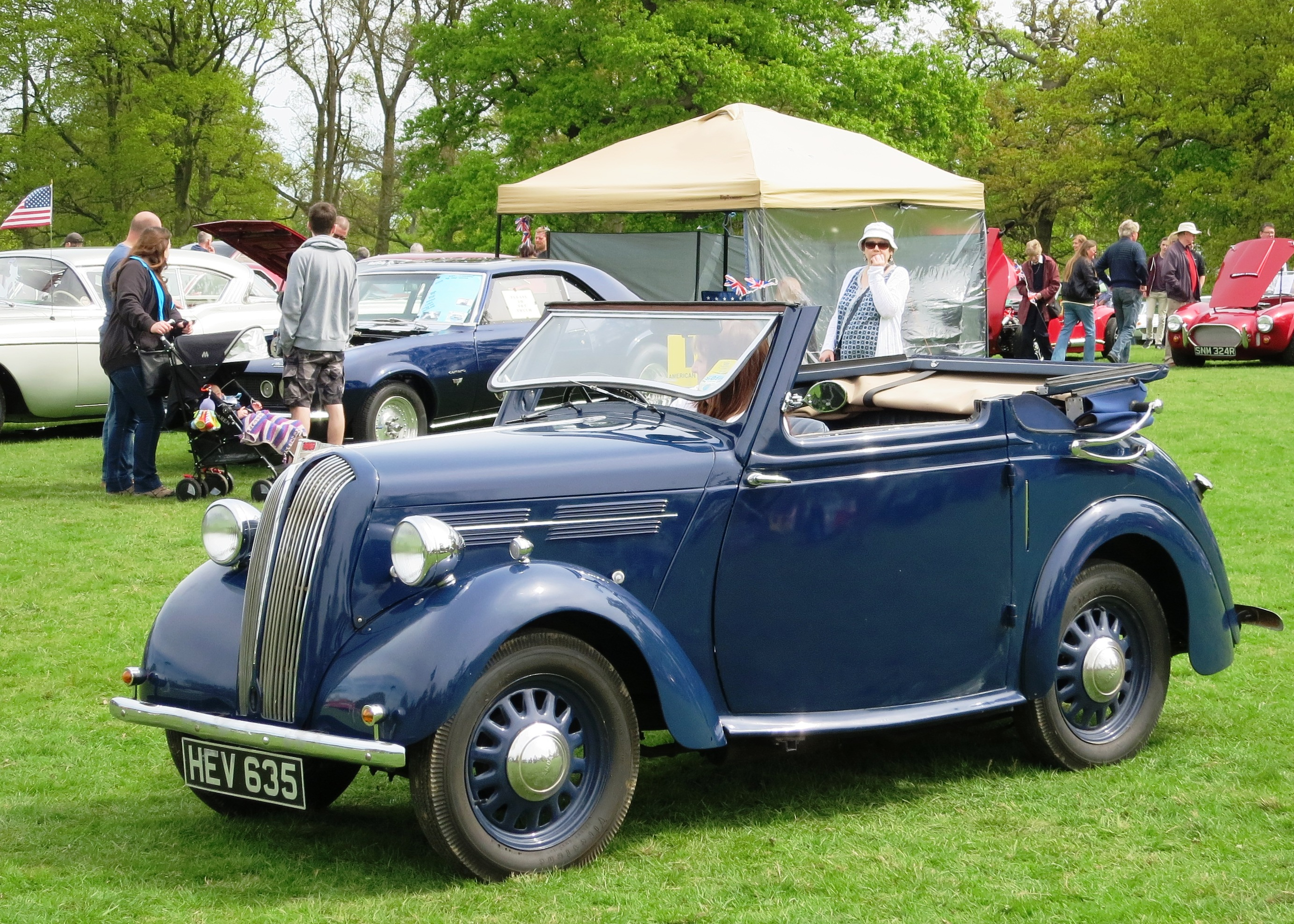 Standard Flying Eight Cabriolet (1939)